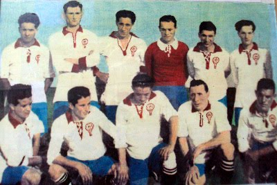 Huracán football team that won by 2nd consecutive time the Argentine championship in 1922. From left to right, (up): Federico, Alberti, Pratto, Kiessel, Scursoni and Vázquez. (down): Ginevra, Caldera, Rodríguez, Dannaher, Anzuain.